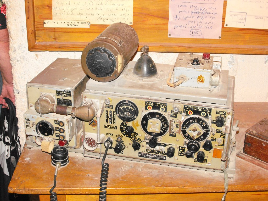 Geography of Israel